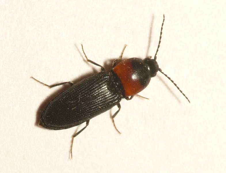 Cardiophorus ruficollis. Location: The Netherlands - Wageningen - Nol in 't Bosch